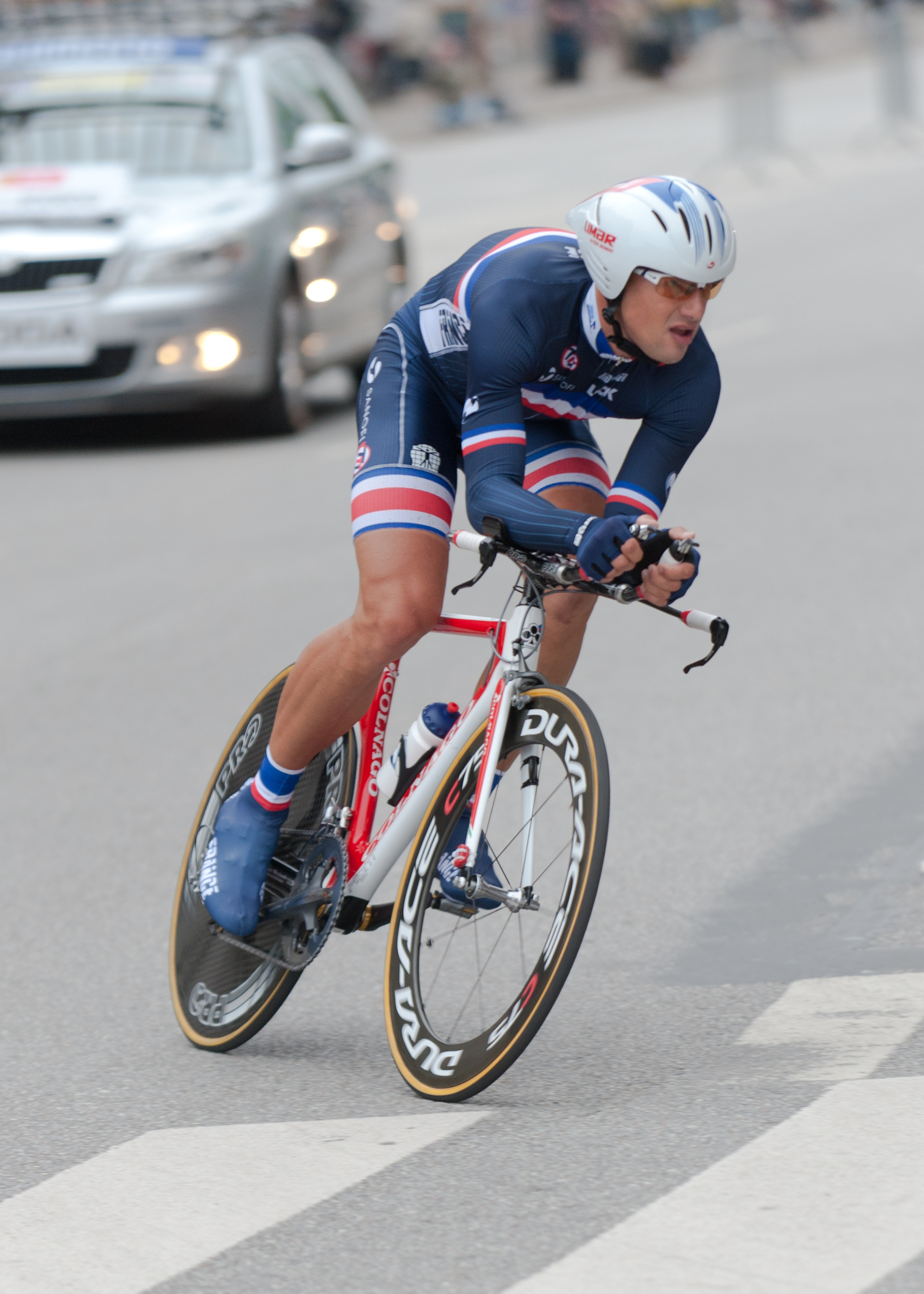 László Bodrogi at the 2011 UCI Road World Championship in Copenhagen.